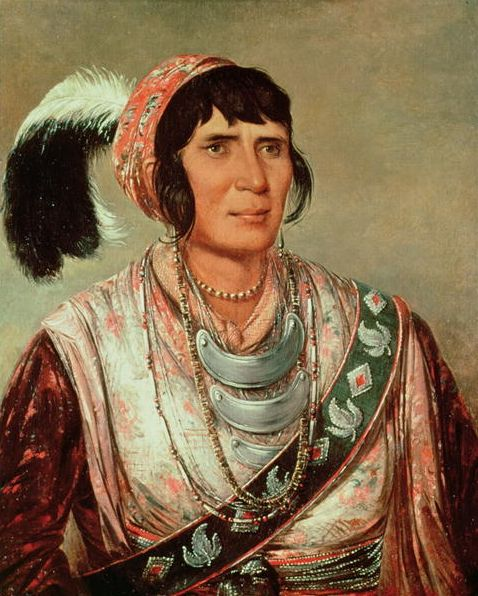 Portrait of Osceola, by George Catlin (d. 1872), oil on canvas, 1838